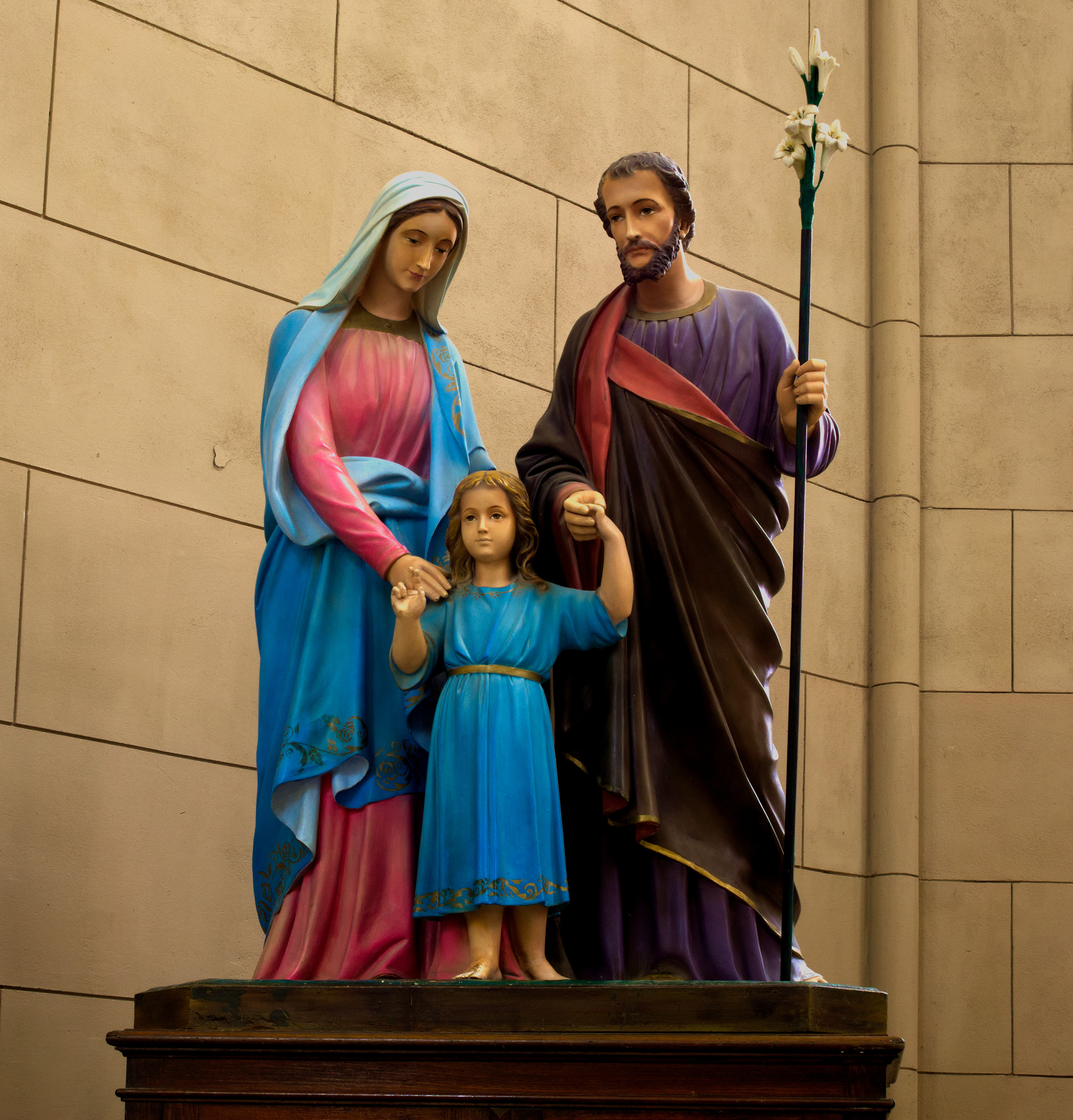 Statue of Holy Mary in Nuestra Señora de Lujan Basilica